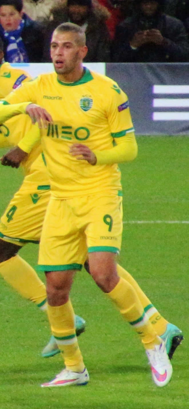 Islam Slimani